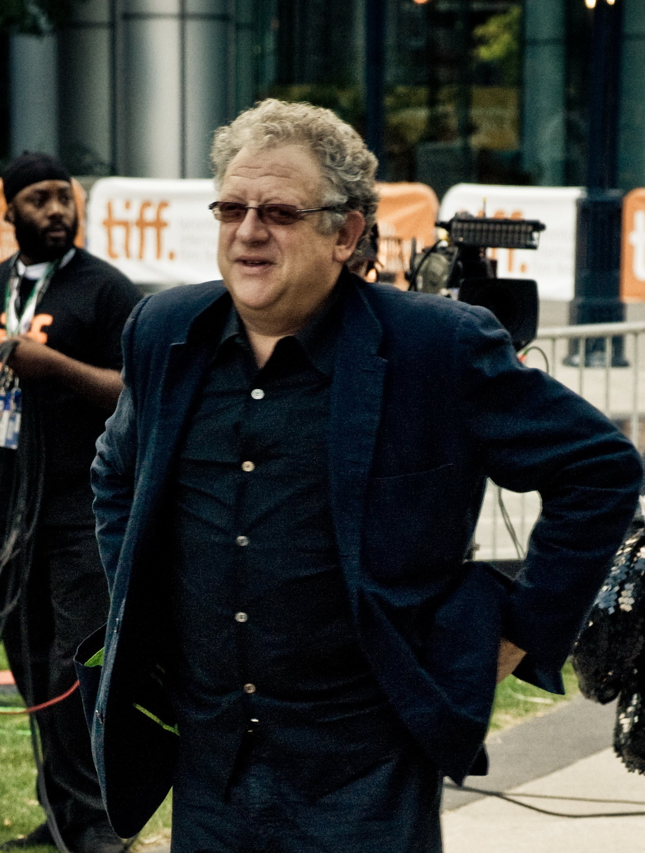 Jeremy Thomas at the 2009 Toronto International Film Festival.